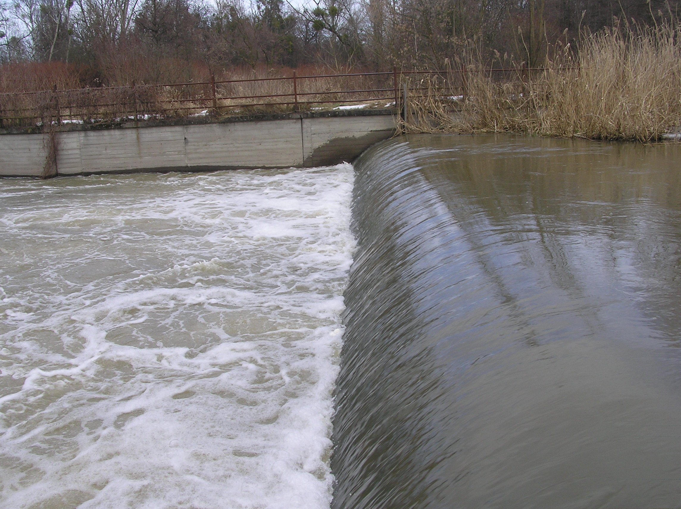 Eastern Park in Wrocław, Oława River, Weir